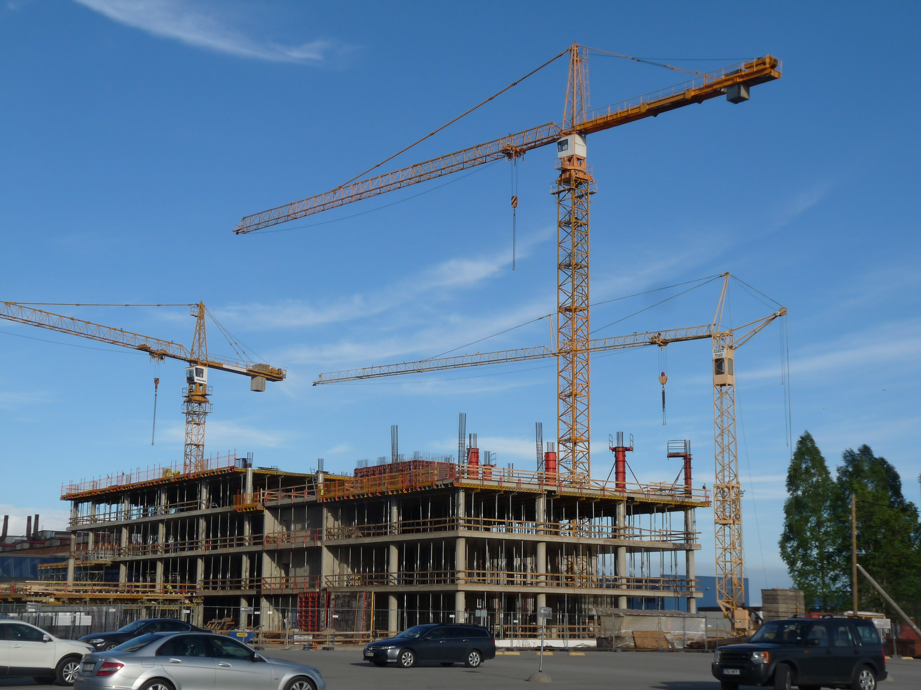 Construction in Tallinn, Estonia